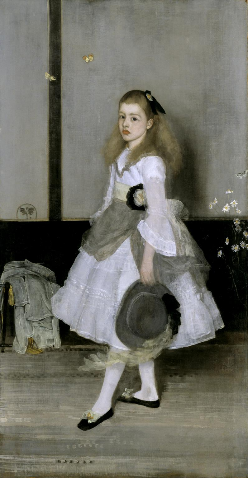 Harmony in Grey and Green Miss Cicely Alexande